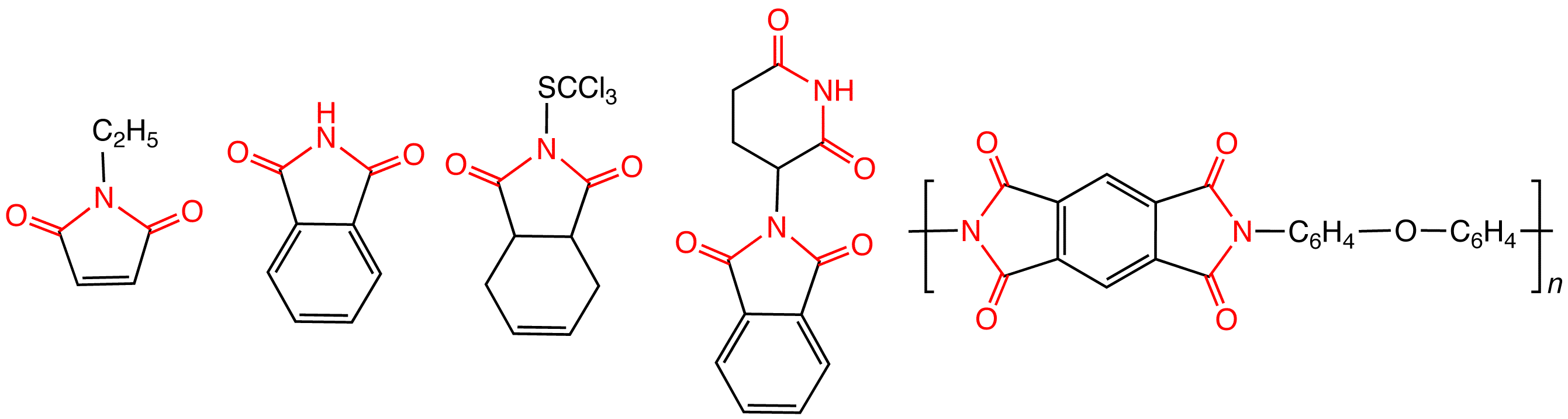 corrected minor presentation details for consistency